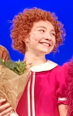 Lily Wahlsteen as Annie during Annie at Nöjesteatern in Malmö, Sweden.